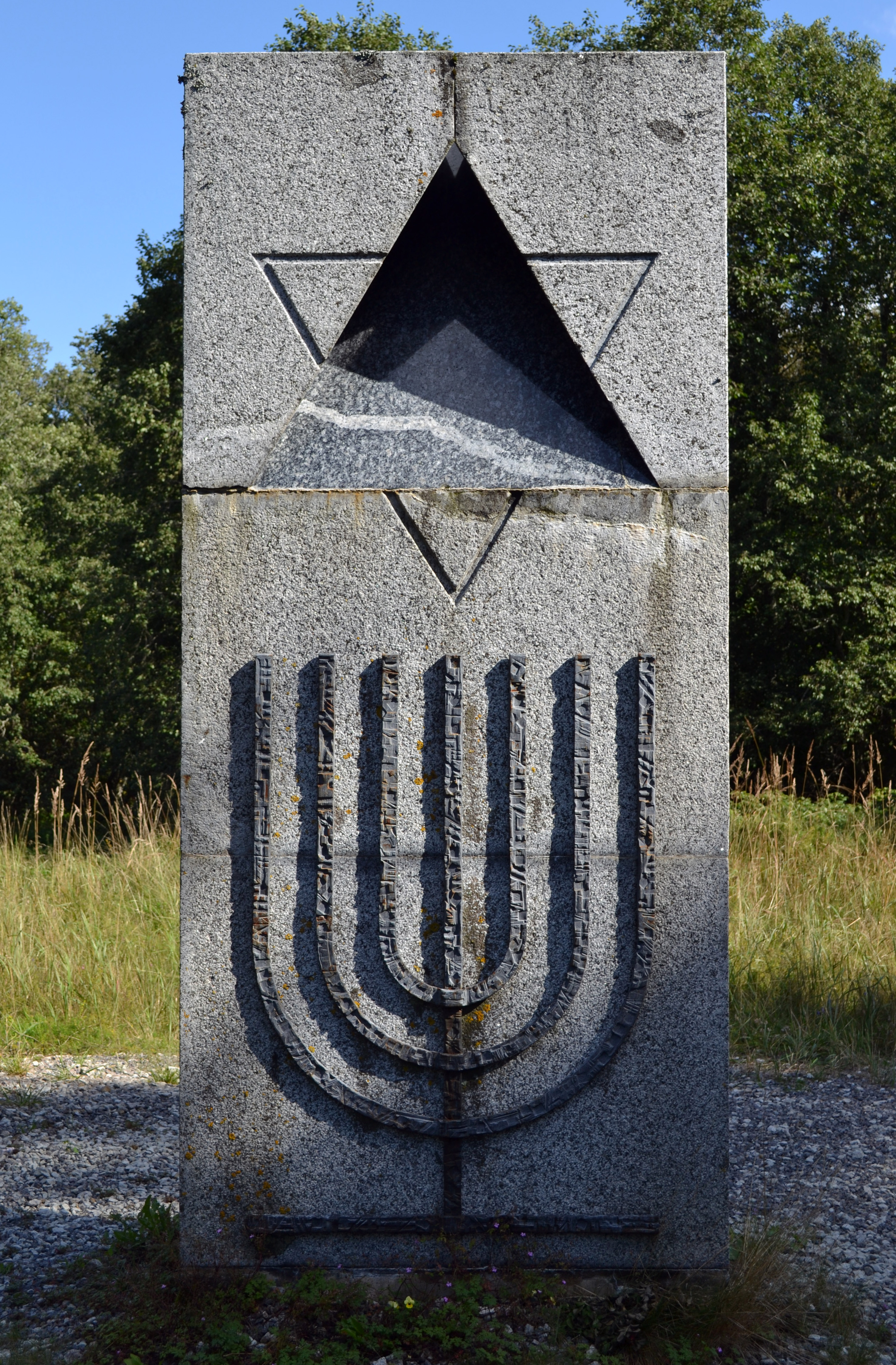 Holocaust memorial in Klooga, Estonia.